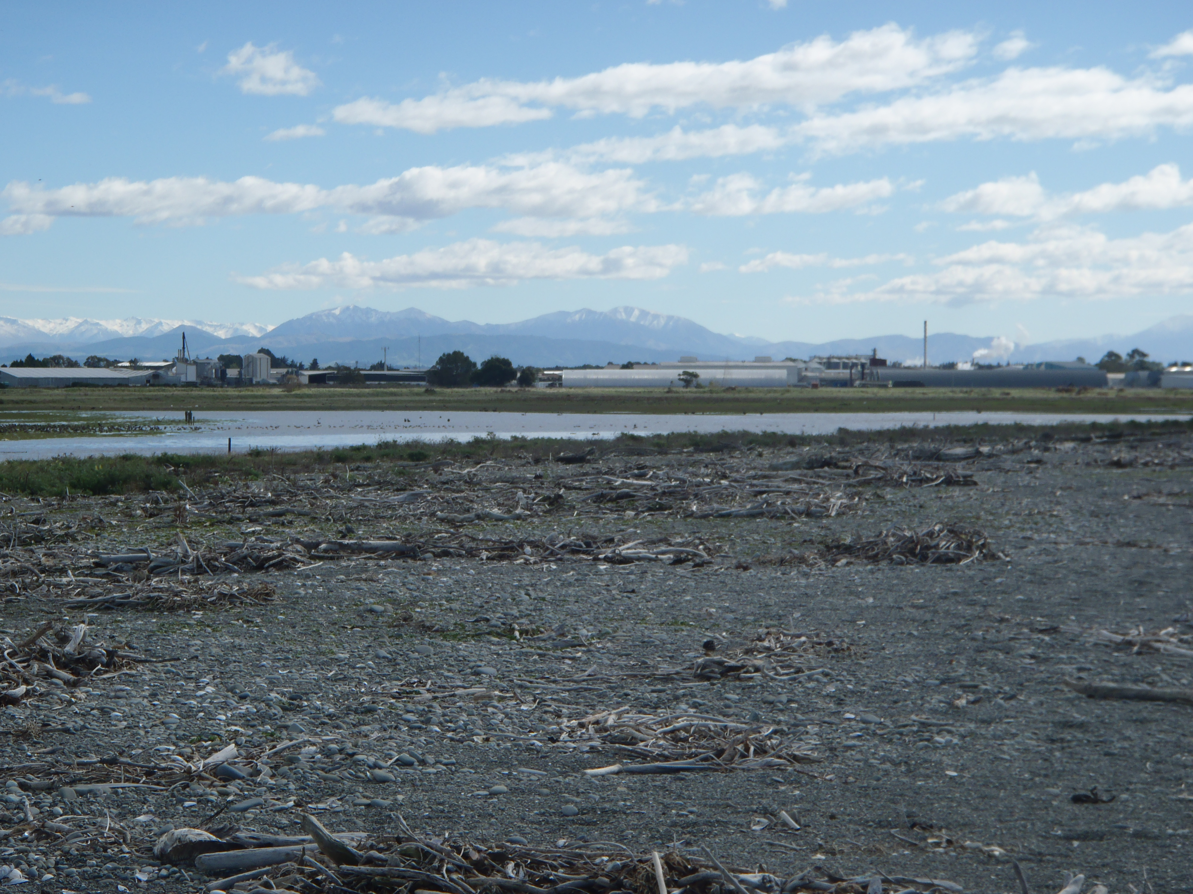 Mixed sand and gravel barrier forming Washdyke Lagoon